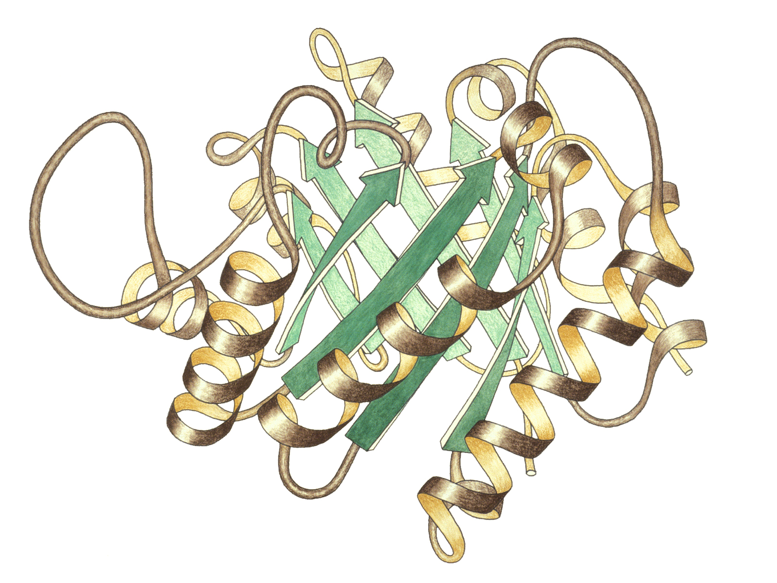 Ribbon schematic (hand drawn & colored) of the 3D structure of the protein triose phosphate isomerase. The barrel of 8 beta strands is shown by green arrows and the 8 alpha-helices as brown spirals. By Jane Richardson. [This white-background version (edited by Lycaon) less historically correct but probably more useful for pure illustration purposes.]